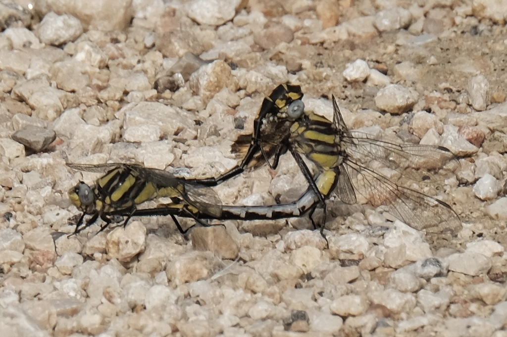 Plains Clubtail (Gomphurus externus), 78617, Austin, TX, US